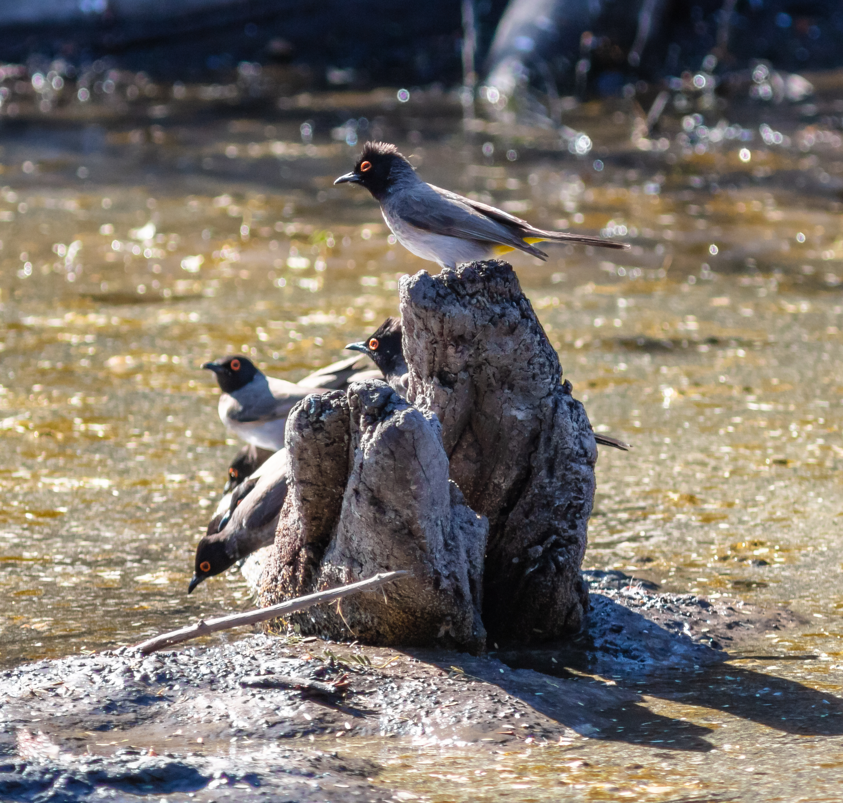 African red-eyed bulbuls (Pycnonotus nigricans), Khama Rhino Sanctuary, Botswana